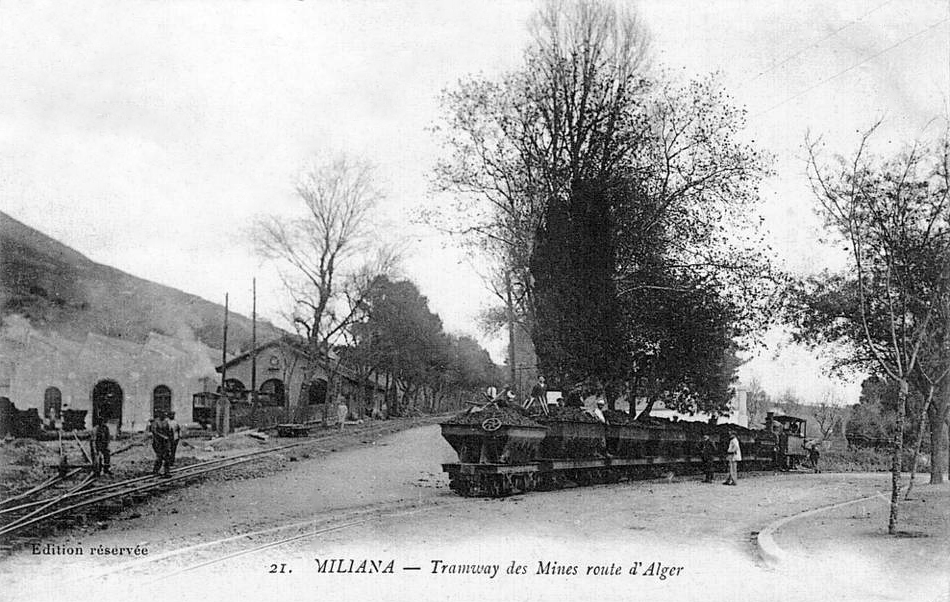 Miliana Mine Tramway